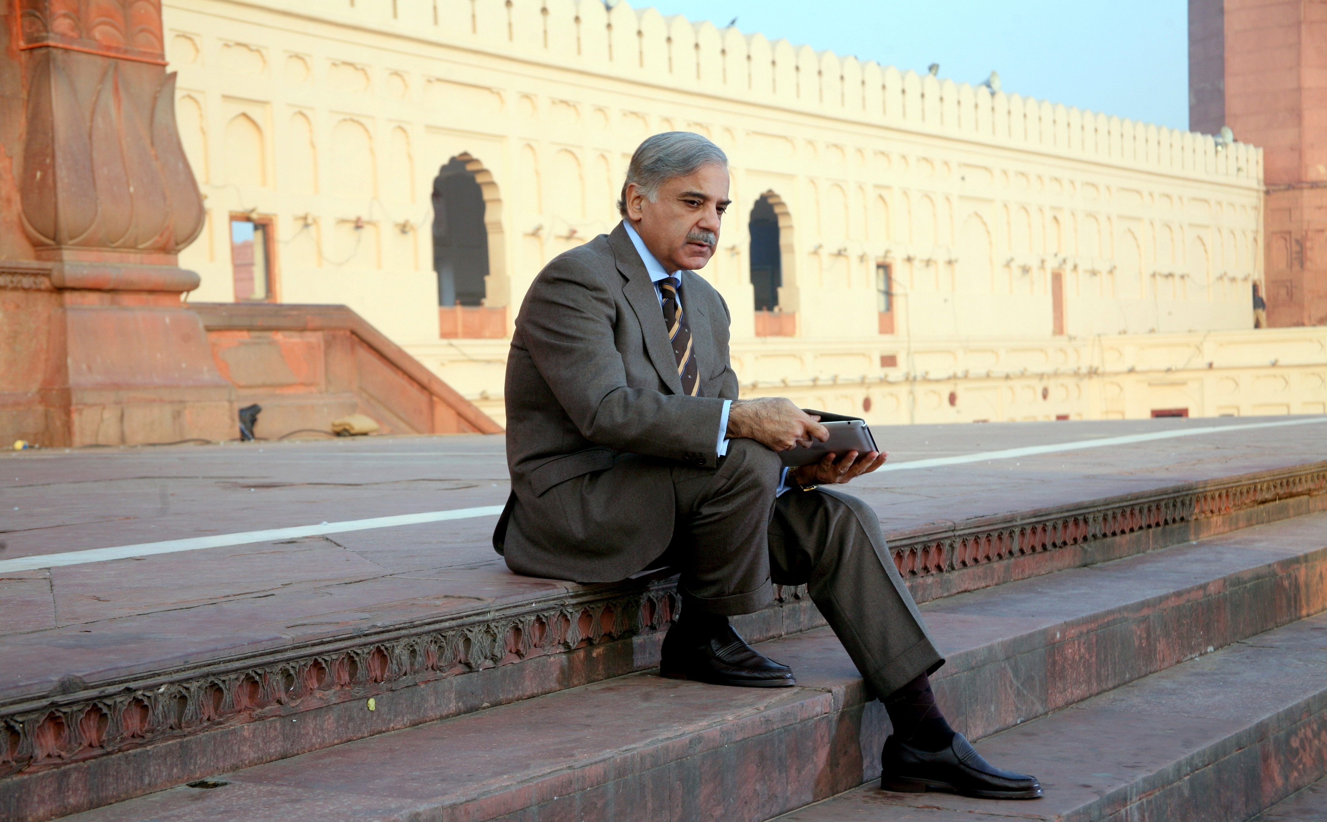 CM Shehbaz Sharif at Badshahi Mosque